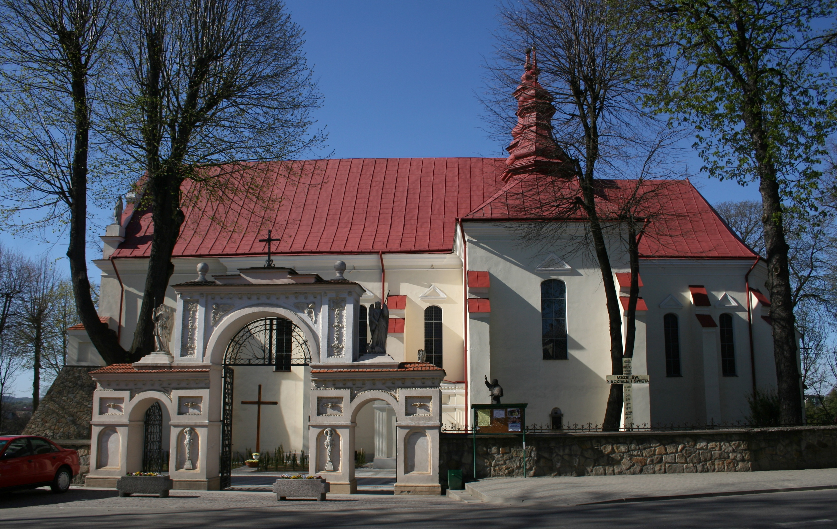 The church of Saint Lawrence in Dynów, Poland.